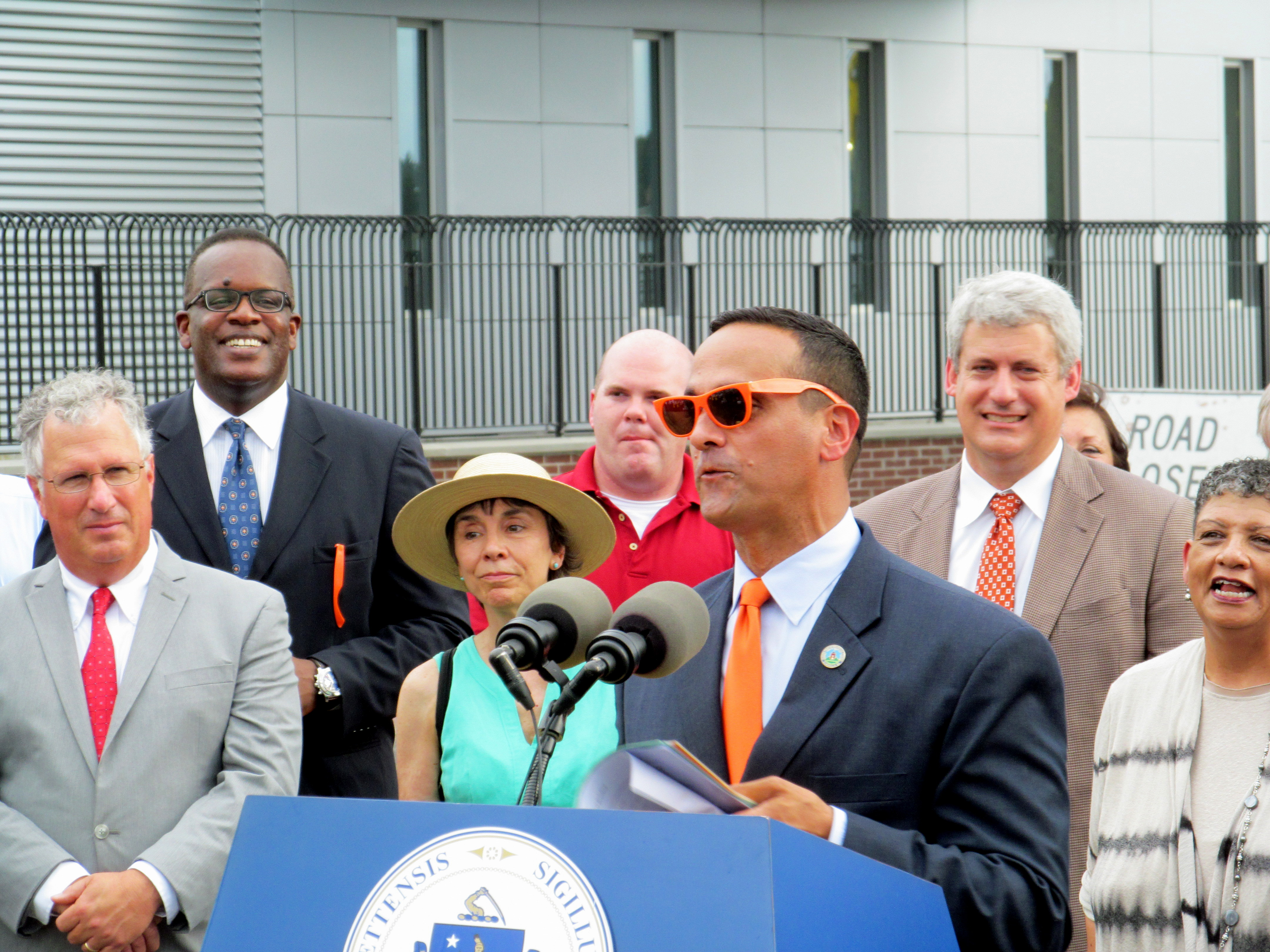 Joseph Curtatone, mayor of Somerville, puts on a pair of orange sunglasses to celebrate the opening of Assembly station (on the MBTA Orange Line) in September 2014. Denise Provost (state representative) is in green, Matt McCloughlin (Somerville alderman) in red, Don Briggs of Federal Reality Trust (the developer of the Assembly Square development) in brown, and Beverly Scott (MBTA General Manager) in white are also in the photo.